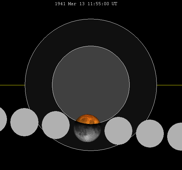 Lunar eclipse chart of moon's path through the earth's shadow. thumb